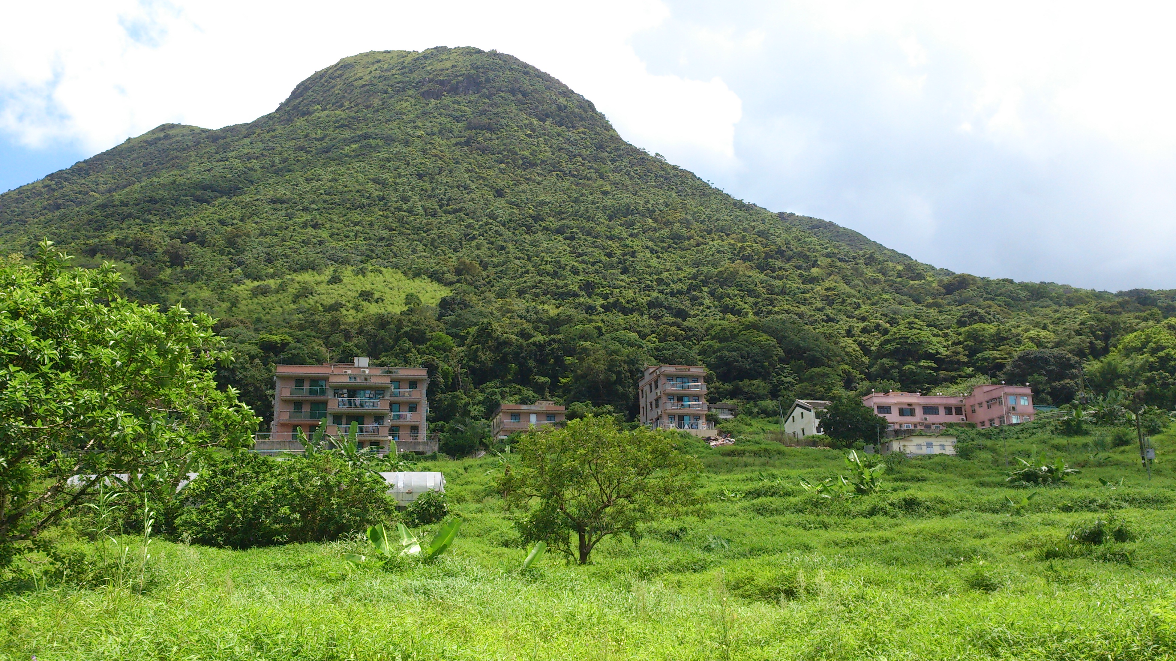 Nui Po Shan, Shatin